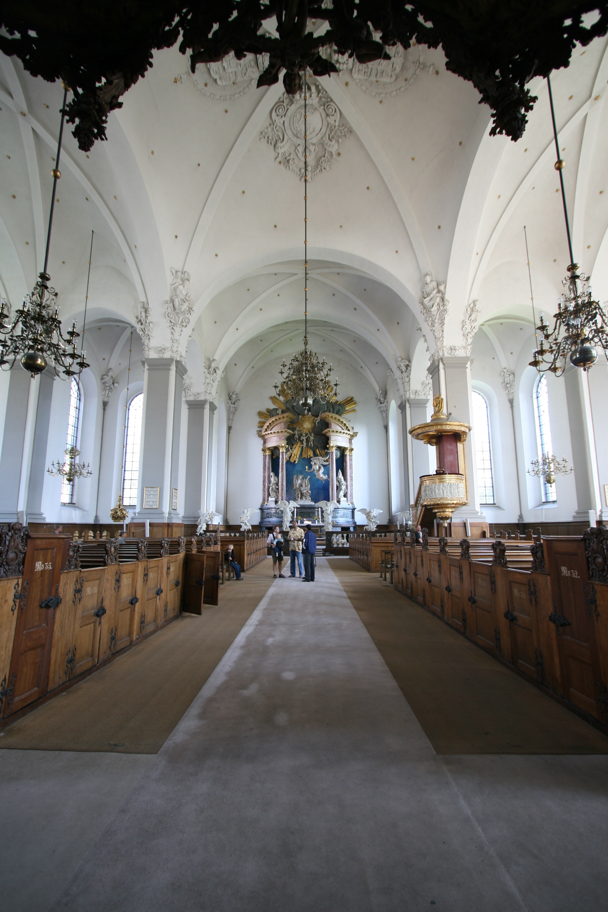 Vor Frelser Kirke (Church of Our Saviour), Copenhagen, Denmark. Interior, wide angle, portrait format.